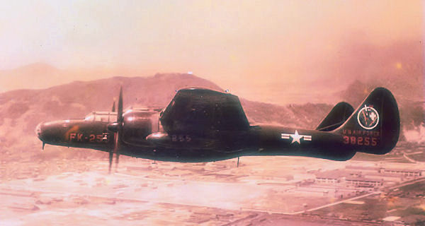 Northrop F-61B-20-NO Black Widow Serial 43-8237 of the 68th Fighter-All Weather Squadron flying over Japan, 1949. Source: Credit given as USAF photo Pape, Garry R., Campbell, John M. and Donna (1991), Northrop P-61 Black Widow--The Complete History and Combat Record. St. Paul, Minnesota: Motorbooks International. ISBN 0-87938-509-X.